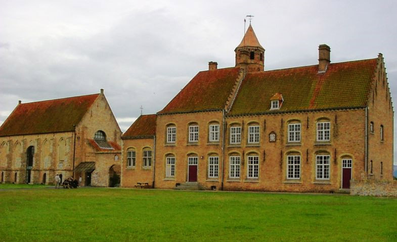 Abbatial farm 'Ten Bogaerde'